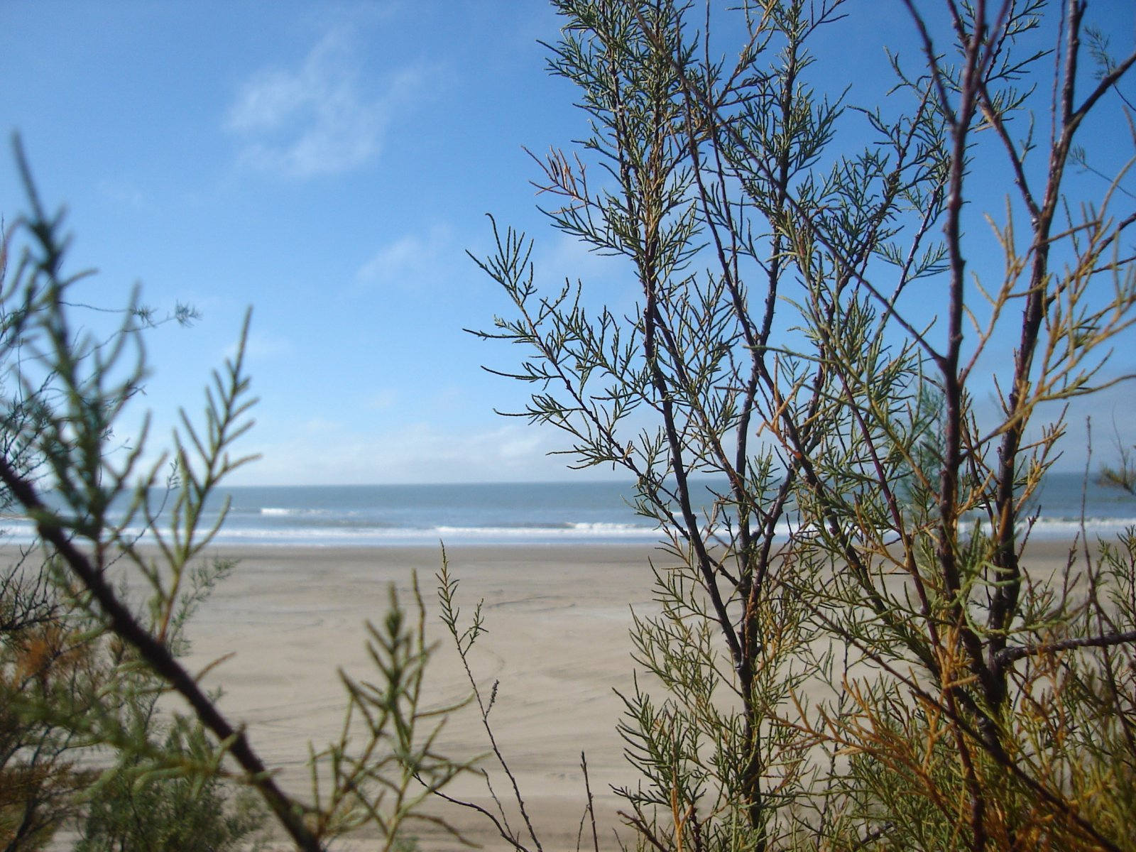 Medanos de San Clemente del Tuyú